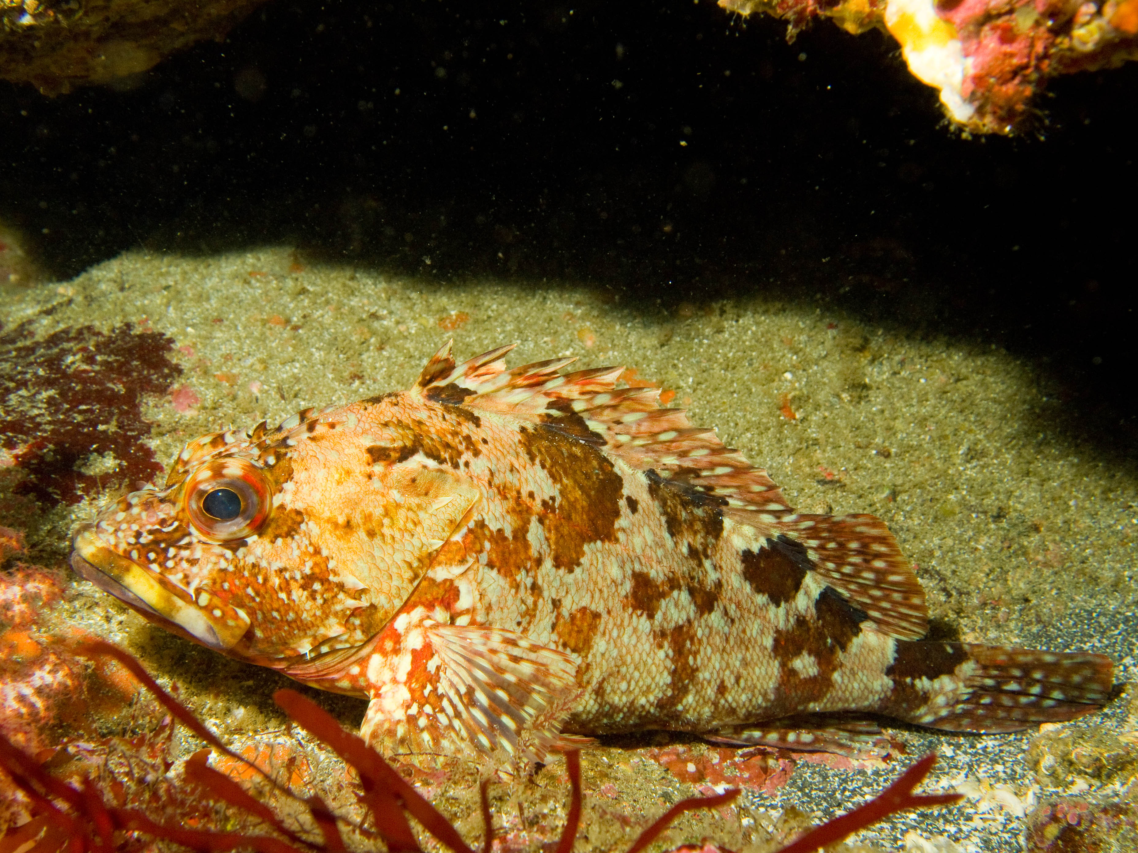 Sebastiscus marmoratus